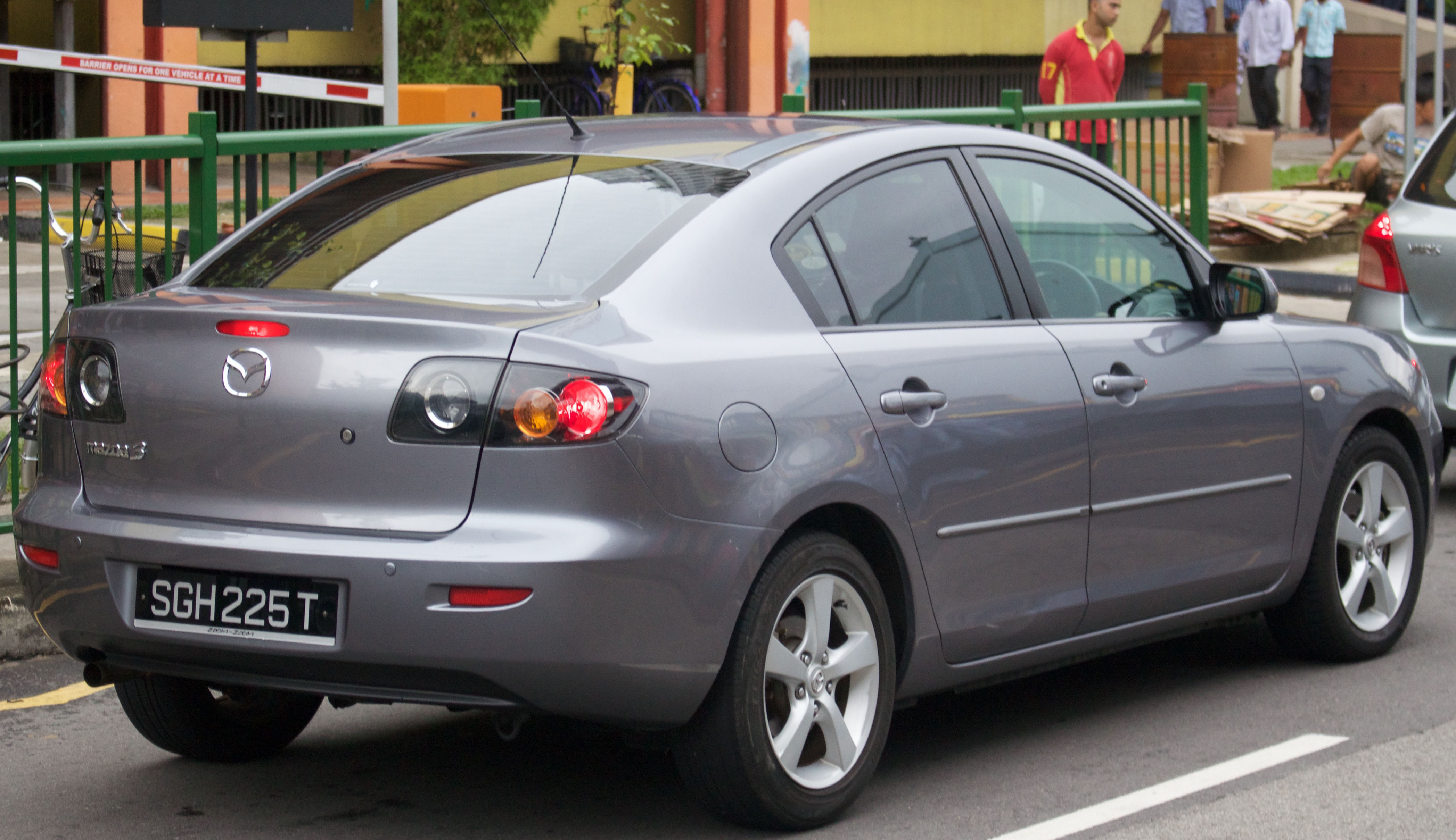 2006 Mazda 3 (BK) 1.6 Luxury sedan. Photographed in Singapore.